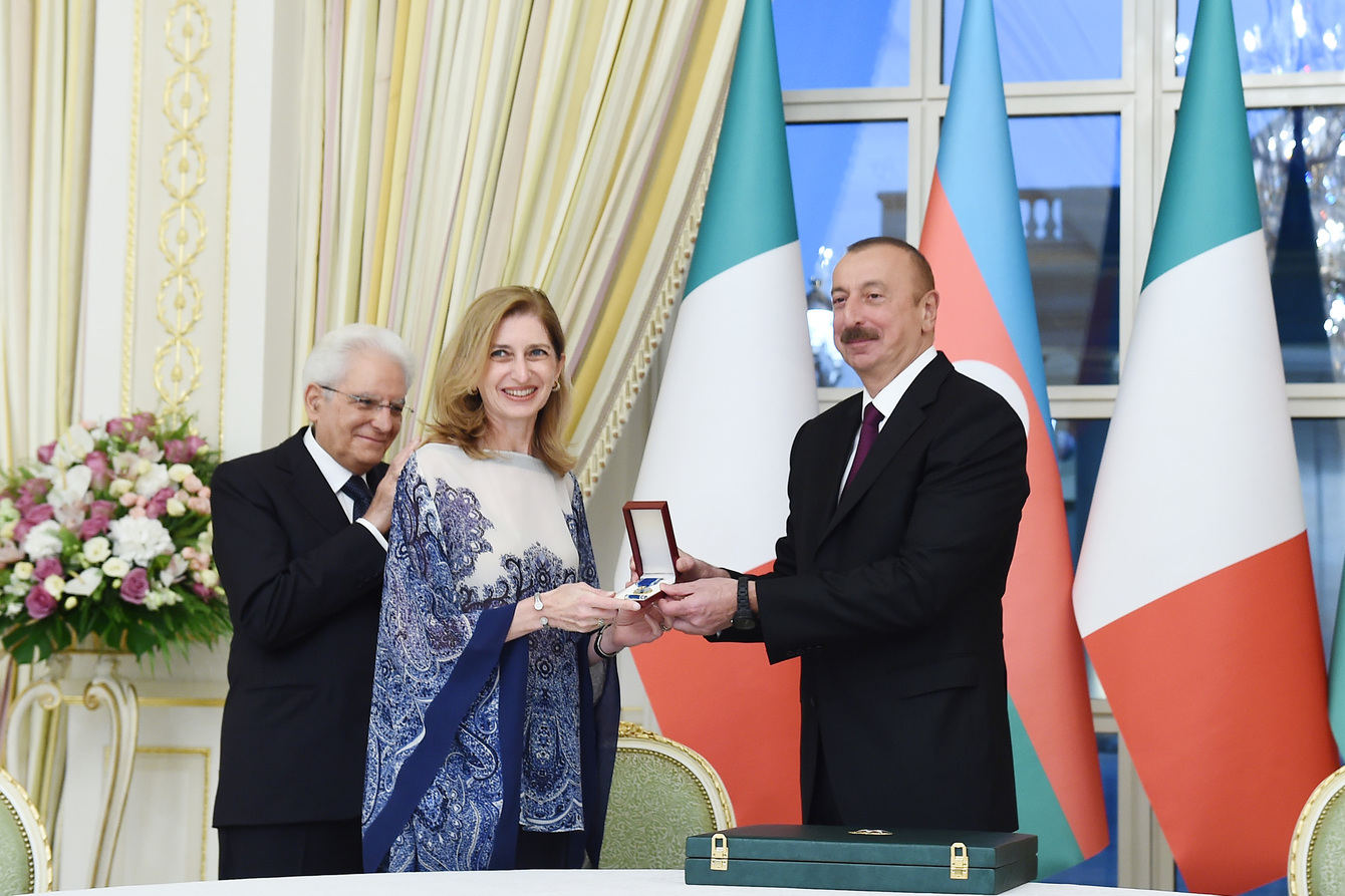 Award ceremony was held as part of Italian President's official visit to Azerbaijan